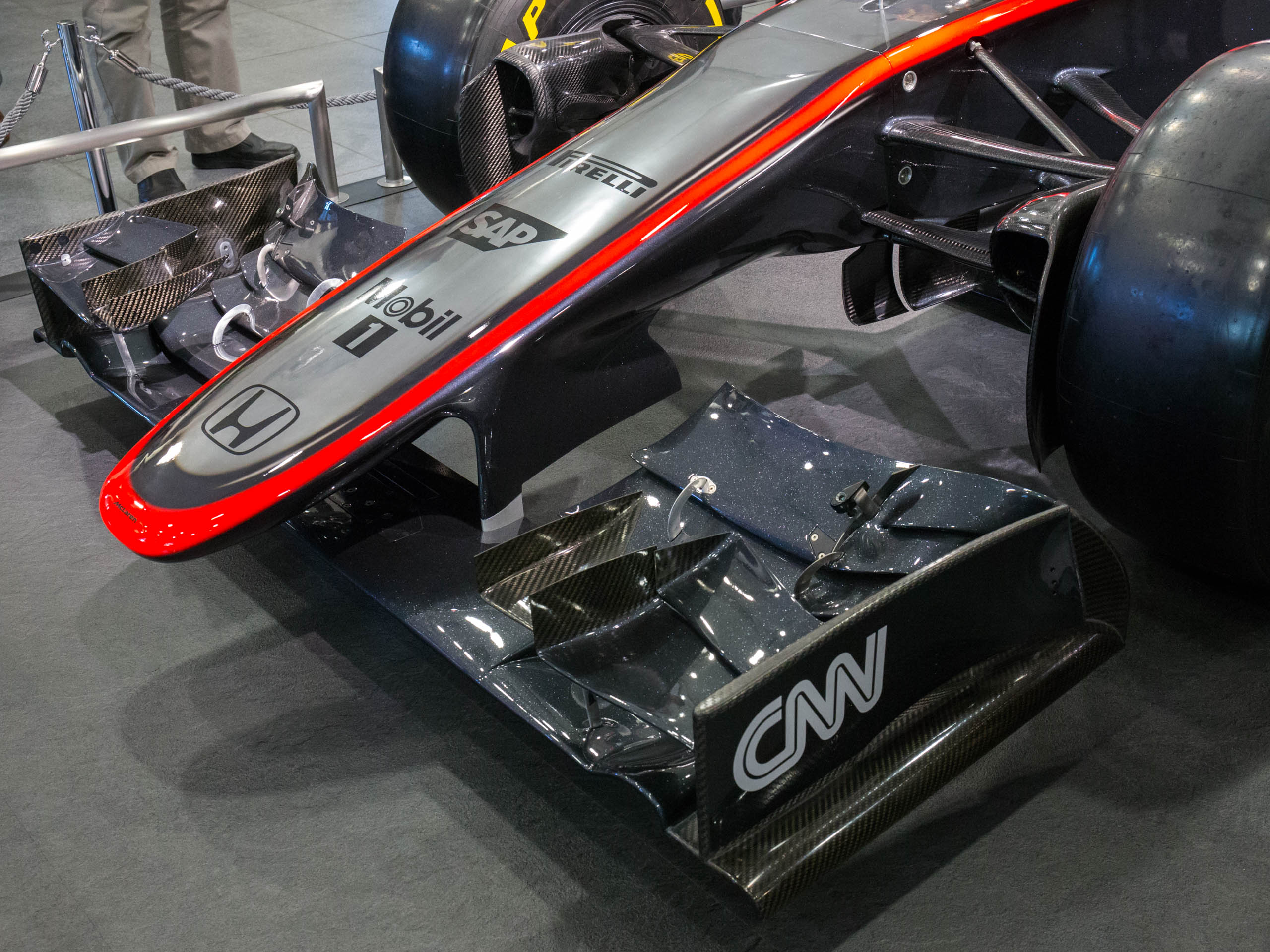 McLaren MP4-30 (mock-up) front wing and nose